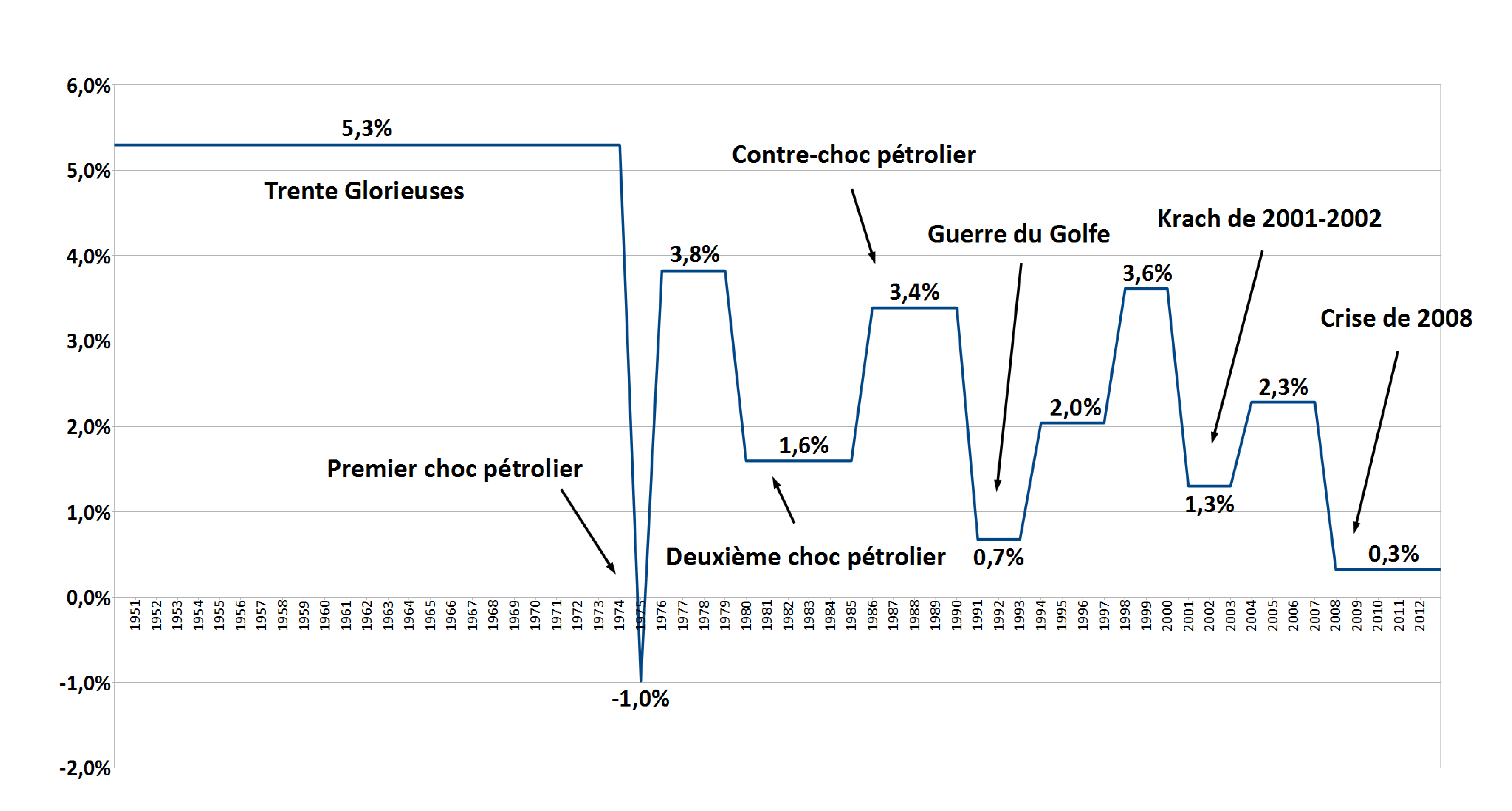 GNP of France (1950-2010)